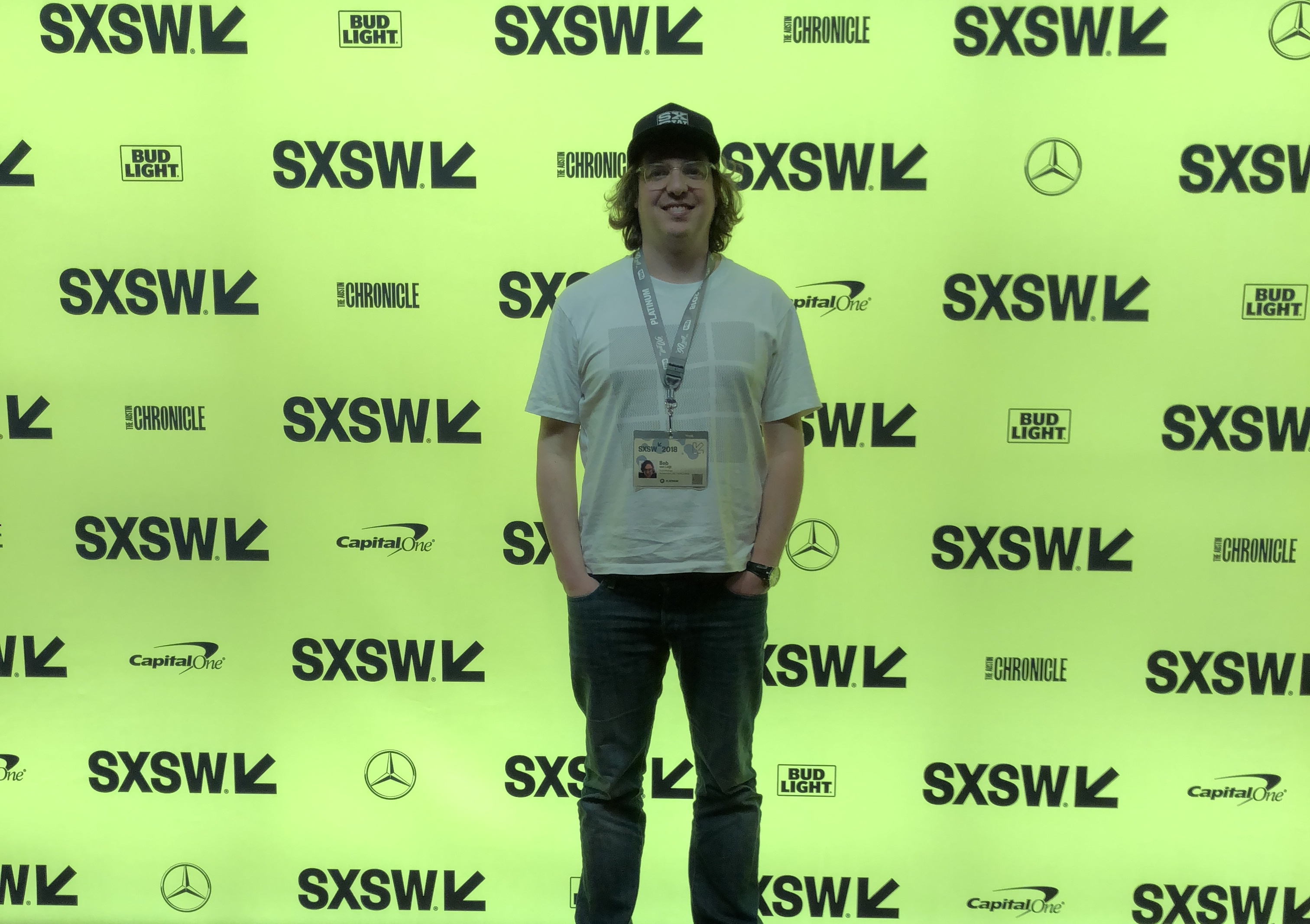 Bob van Luijt @ SXSW 2018